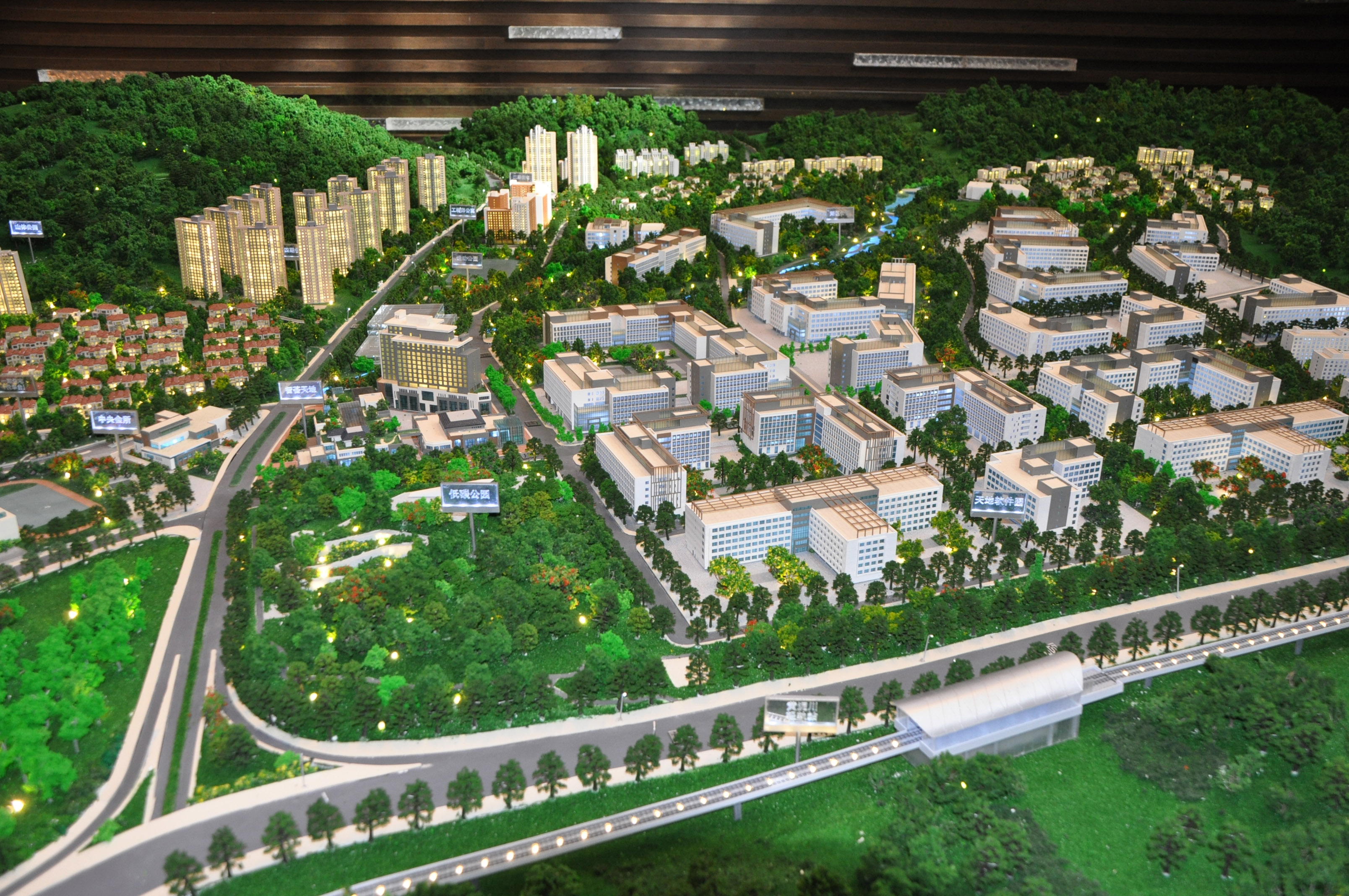 Dalian Tiandi Software Park - Model 2011